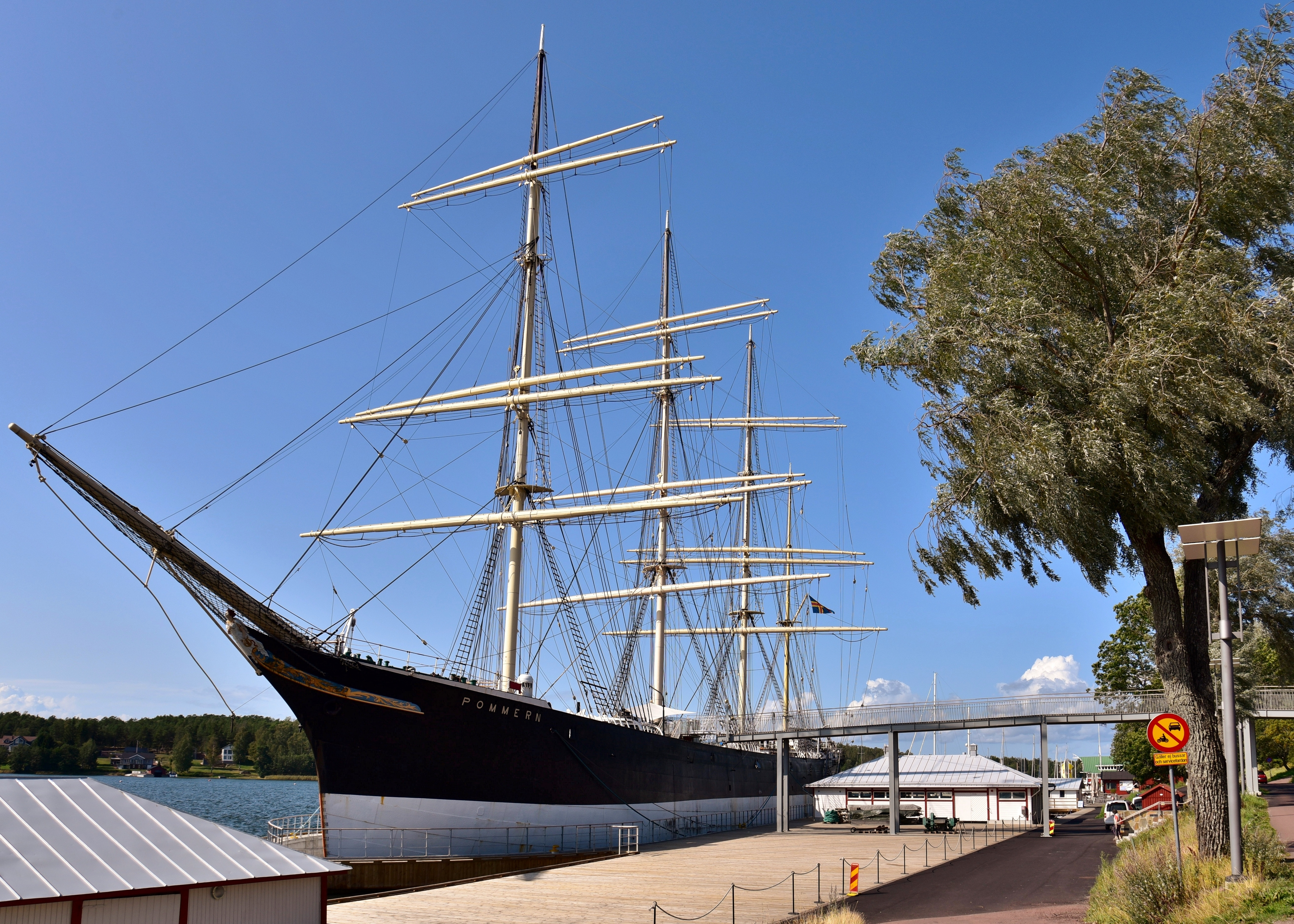 The preserved sailing ship Pommern, on display at the Åland Maritime Museum in Mariehamn, Åland Islands, Finland